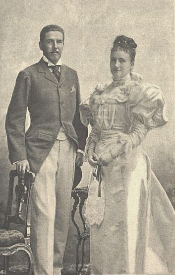 Archduchess Maria Dorothea of Austria and Prince Philippe, Duke of Orléans